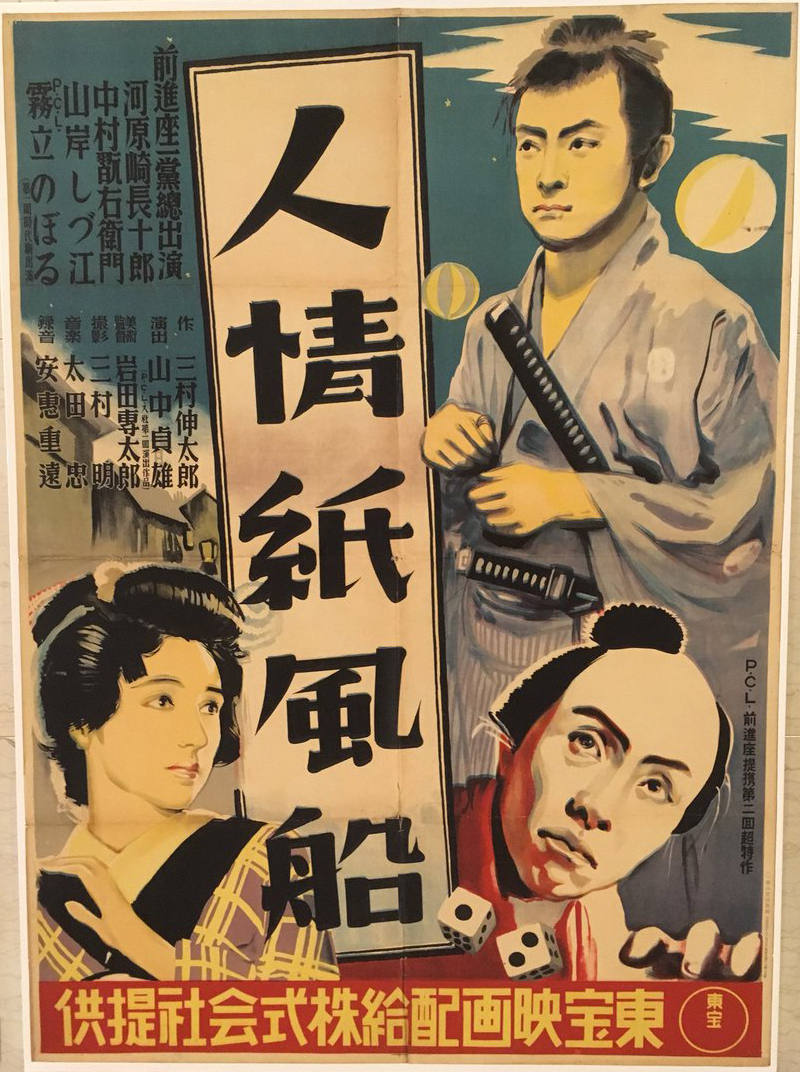 Movie poster for 1937 Japanese movie Sadao Yamanaka's Humanity and Paper Balloons.